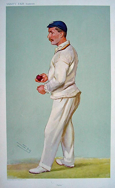 Caricature of Cyril Mowbray Wells (1871-1963). Caption read "Father". Brief biography read "Played for Surrey and Middlesex. Born 21st March 1871. Educated Dulwich. Trinity Cambridge. Became a Master at Eton 1893. An all-rounder. Played rugger for England 1893/7. HOBBIES: Entomology. Bridge".